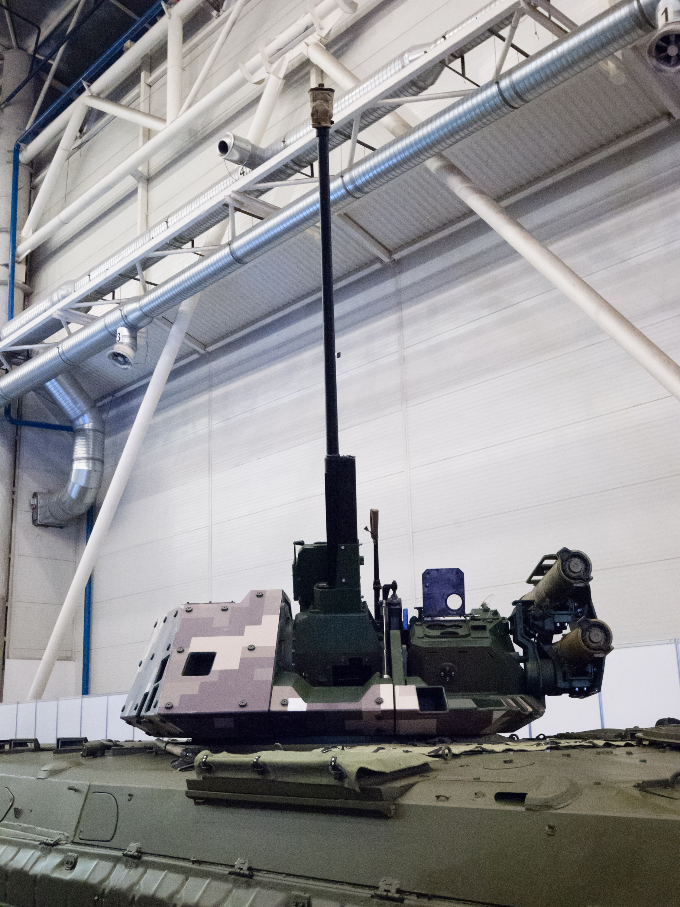 Turra 30 fighting module (Slovakia)